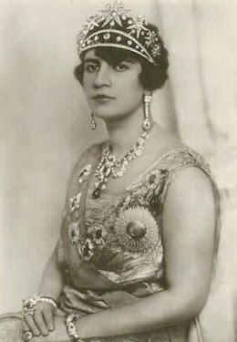 Queen Soraya of Afghanistan (born 1899, Damascus, died 1968, Rome), daughter of Mahmud Tarzi.